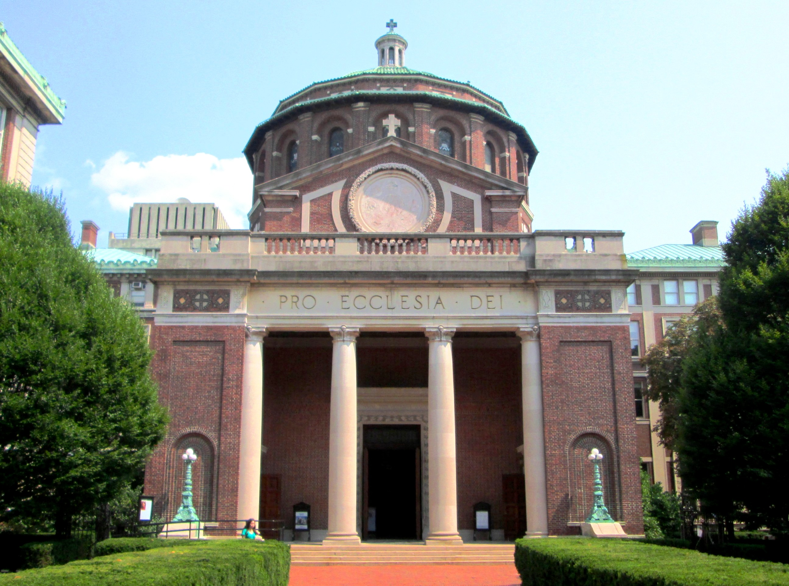 St. Paul's Chapel on the Morningside Heights campus of Columbia University, is an Epicopal church built in 1903-07 and designed by Howells & Stokes. The chapel has excellent acoustics for concerts, and a small vault in the basement is the location of the Postcrypt Coffeehouse, which "might be the most haunting (not haunted) performance space in the City." (Source: AIA Guide to NYC (5th ed.))